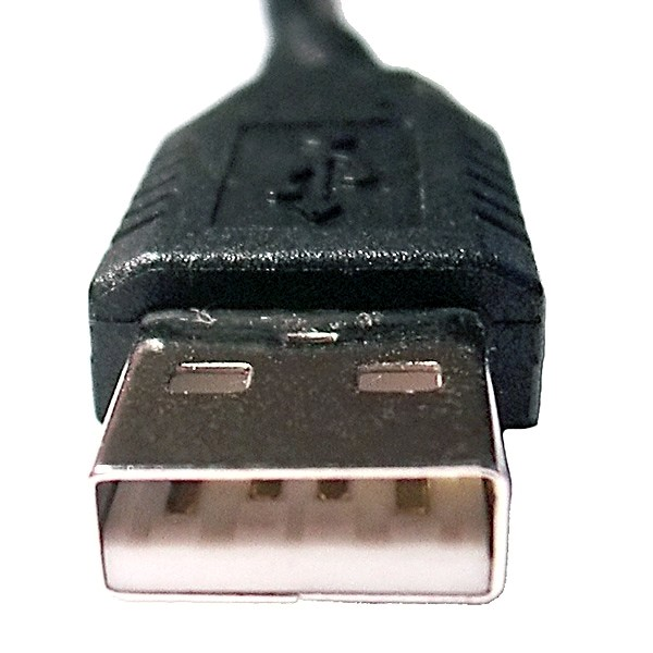 This image shows a USB male plug type A.